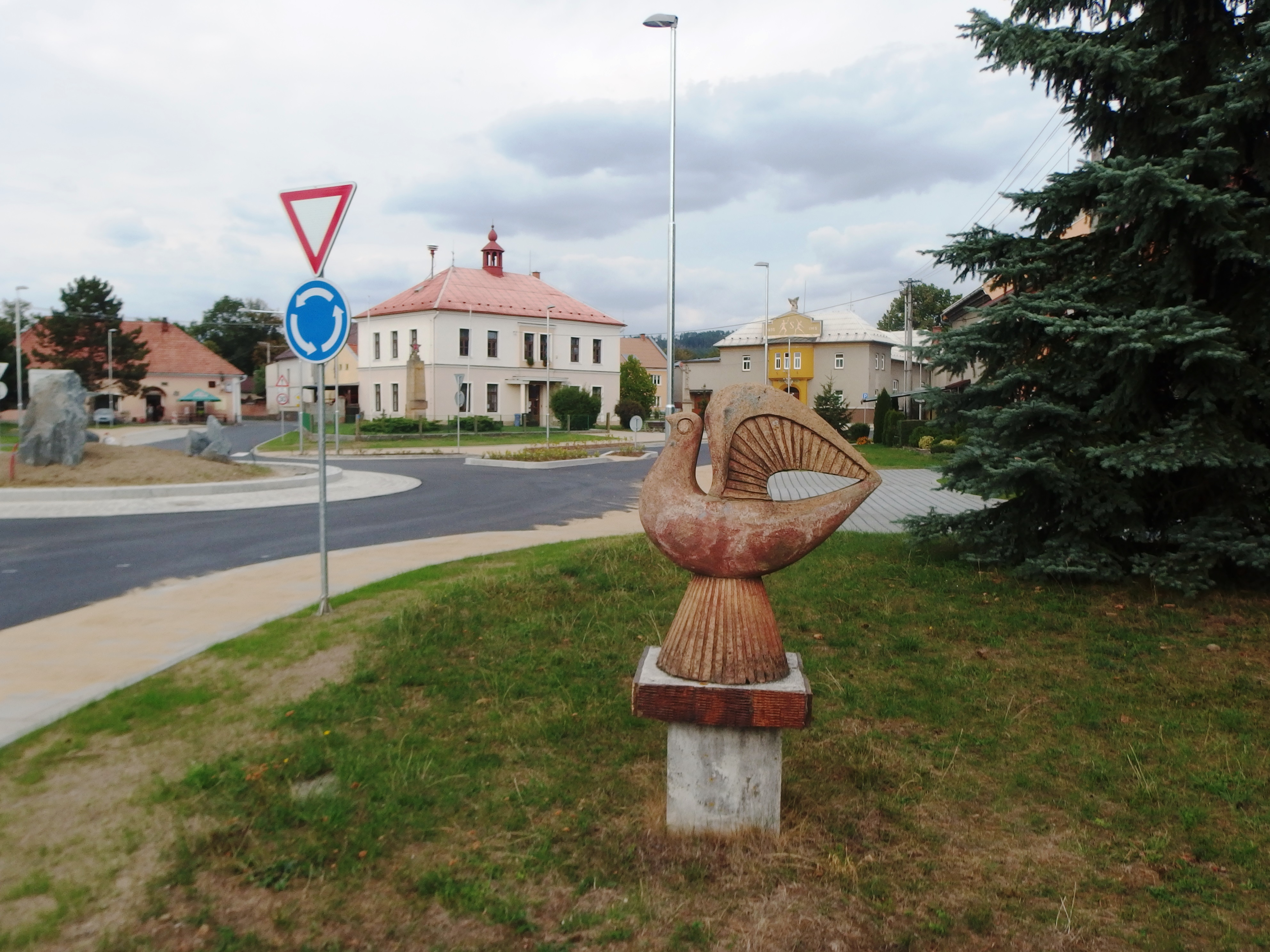 Bělkovice-Lašťany, Olomouc District, Czech Republic.